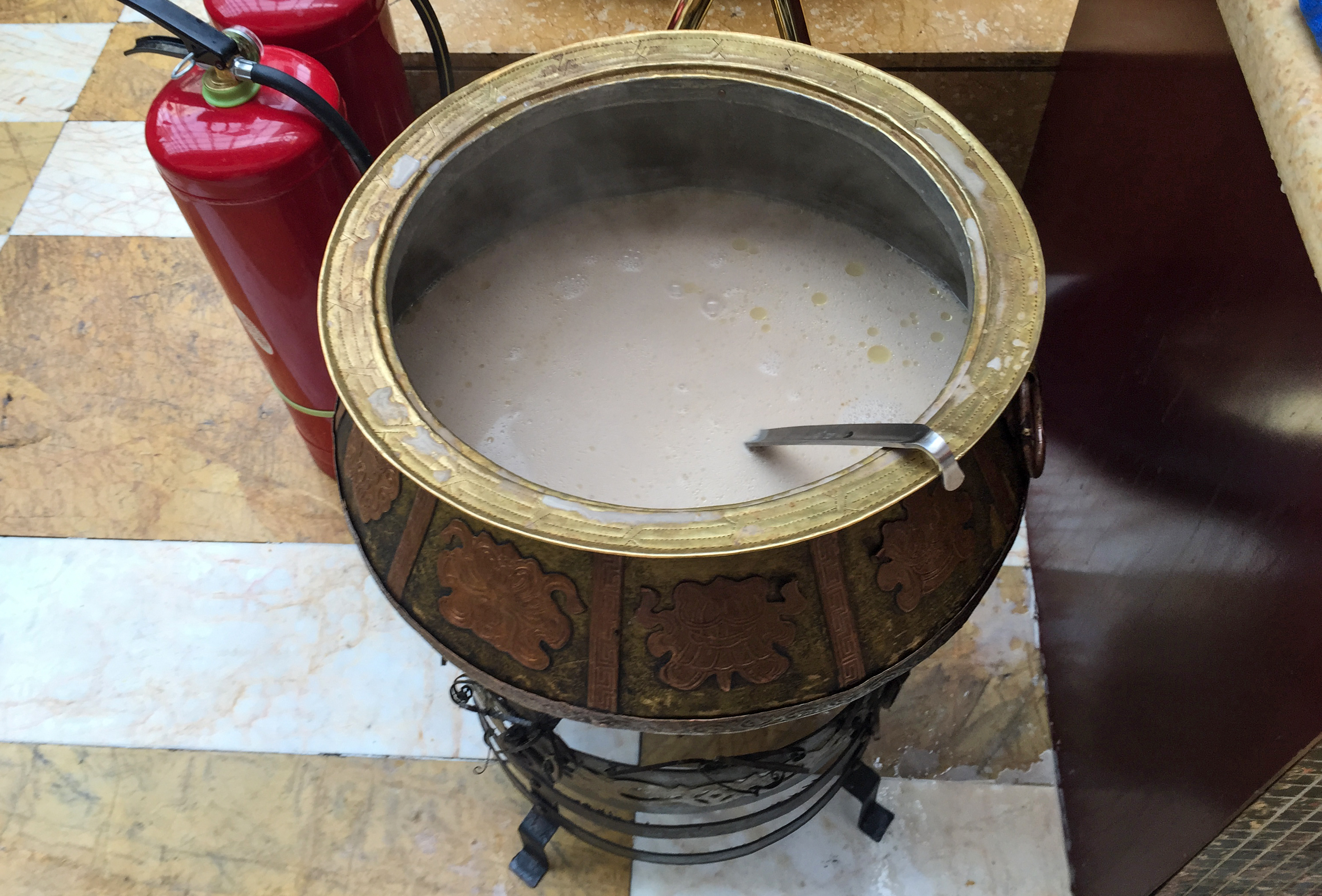 Mongolian milk tea is one of the highlights at this hotel in Hohhot.